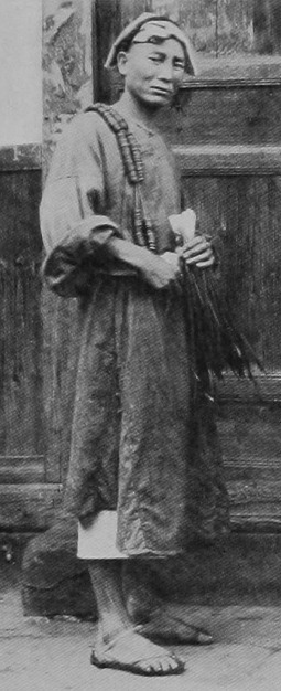 Notes from Chinese Pictures: Notes on Photographs: “In travelling, the carriage of money is a great annoyance, owing to the smallness of its value and the large number of coins or “cash” necessary to make up an amount of any size.” “Exchanging eighteen shillings English for brass cash, the weight of them amounted to seventy-two pounds, which had to be carried by the coolies.” “These cash have a square hole in the middle, and are strung together upon a piece of straw twist. Should the straw break, the loss of time in getting up the pieces is much more than the loss of the money.” “The Chinese are honest, very keen at a bargain, but when the bargain is made the Chinaman may be depended on to keep it.”